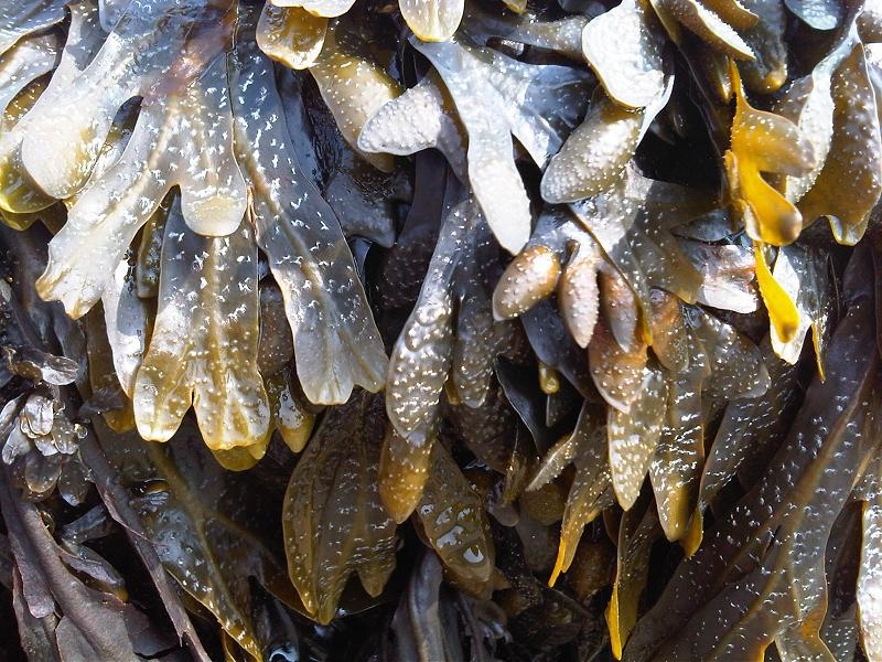 Bladder wrack (Fucus vesiculosus) from Isle of Wight, South-England seashores.